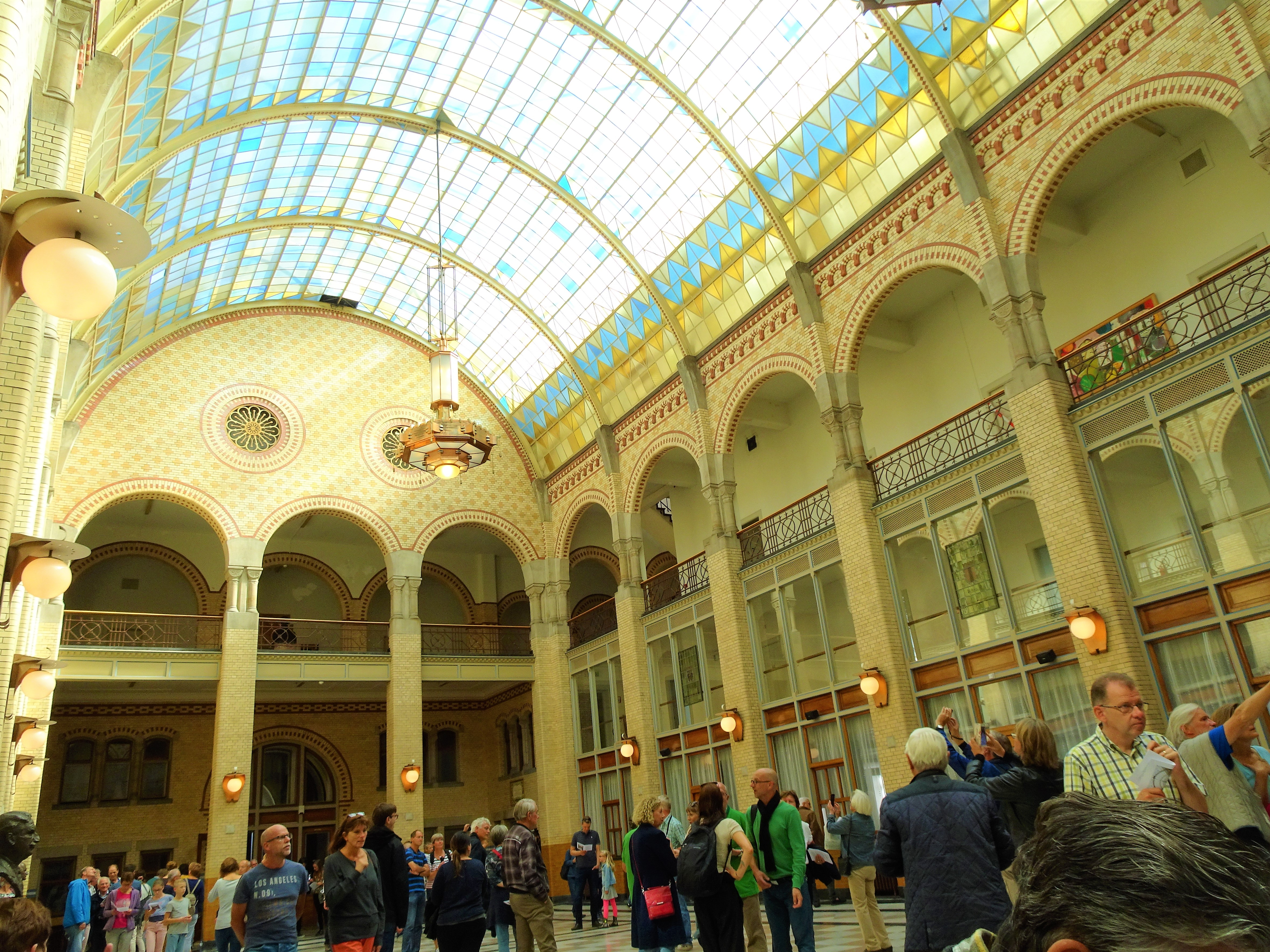 De hal van het voormalig hoofdkantoor van Gist-Brocades/DSM (voorheen: Gistfabriek-Oliefabriek/Calvé) in Um 1800-stijl met diverse glas-in-loodversieringen, gewelfd glas-in-lood overkapping, tegelpatronen, ornamenten, tegeltableaus van de Porceleyne Fles. Gebouwd in 1905 onder architectuur van Bastiaan Schelling en Karel Muller. Tijdens Open Monumentendag 2018